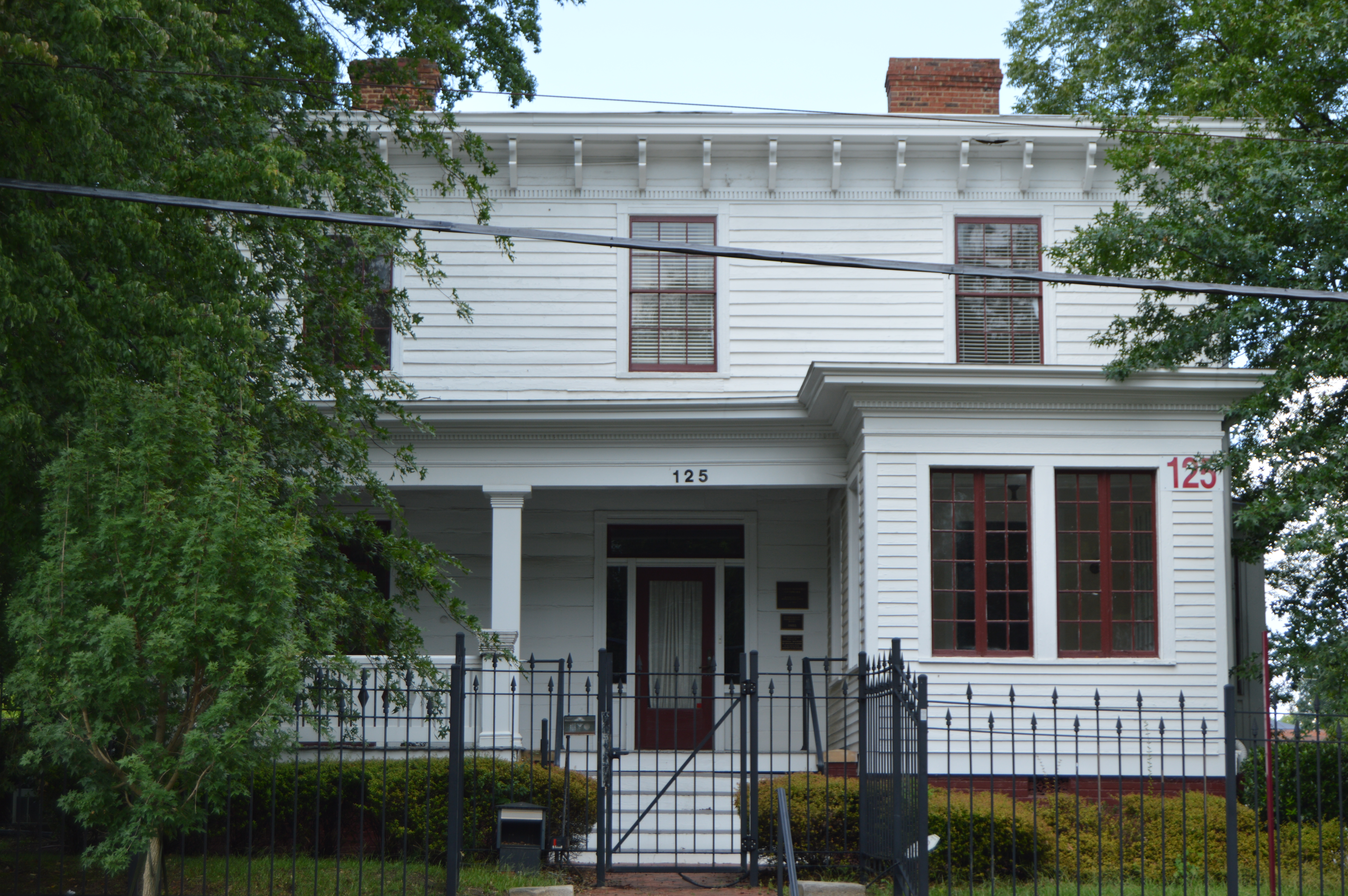 Front of the Rogers-Bagley-Daniels-Pegues House, located at 125 E. South Street in Raleigh, North Carolina, United States. Built in 1855, it is listed on the National Register of Historic Places.